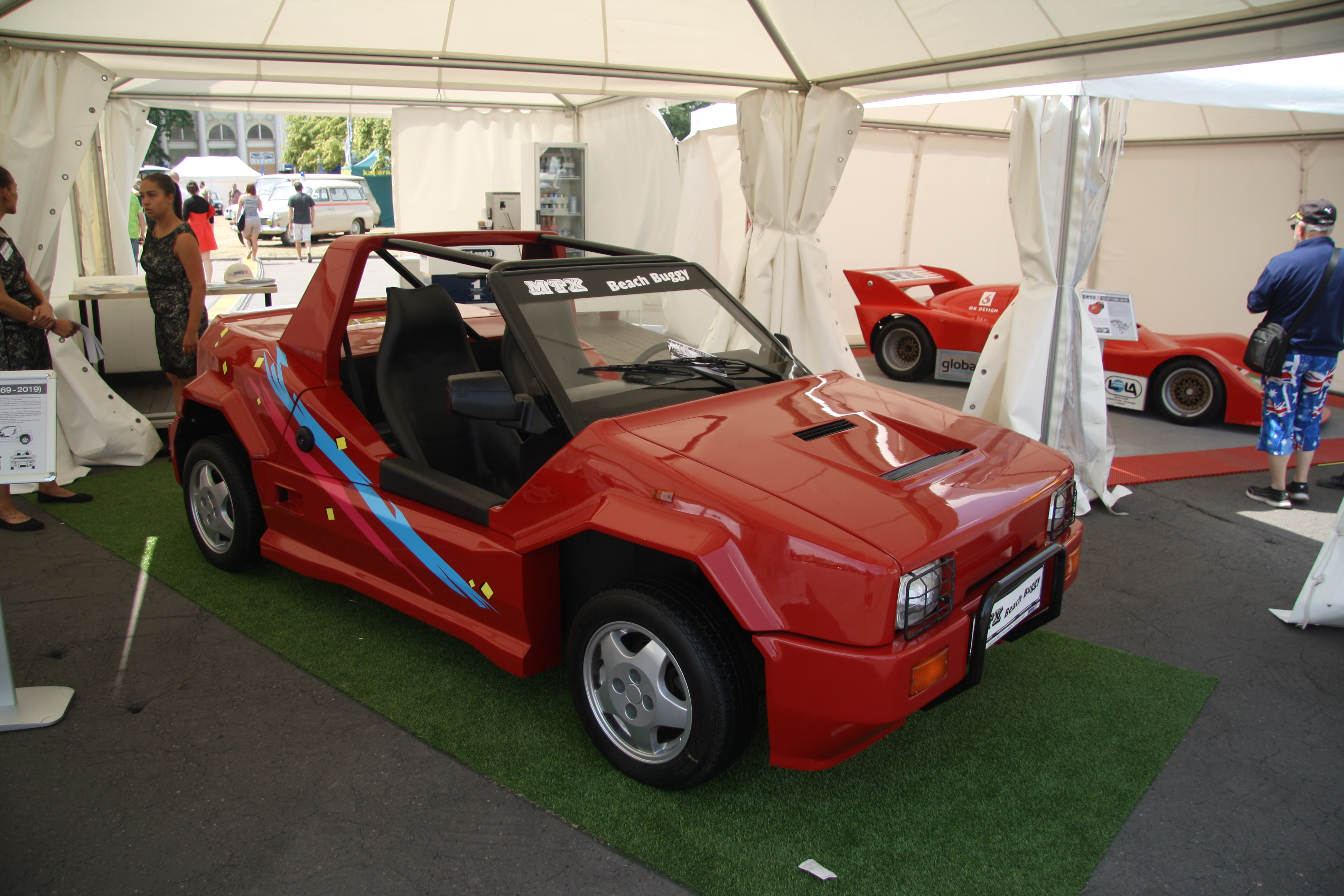 MTX Beach Buggy at Legendy 2018 in Prague.